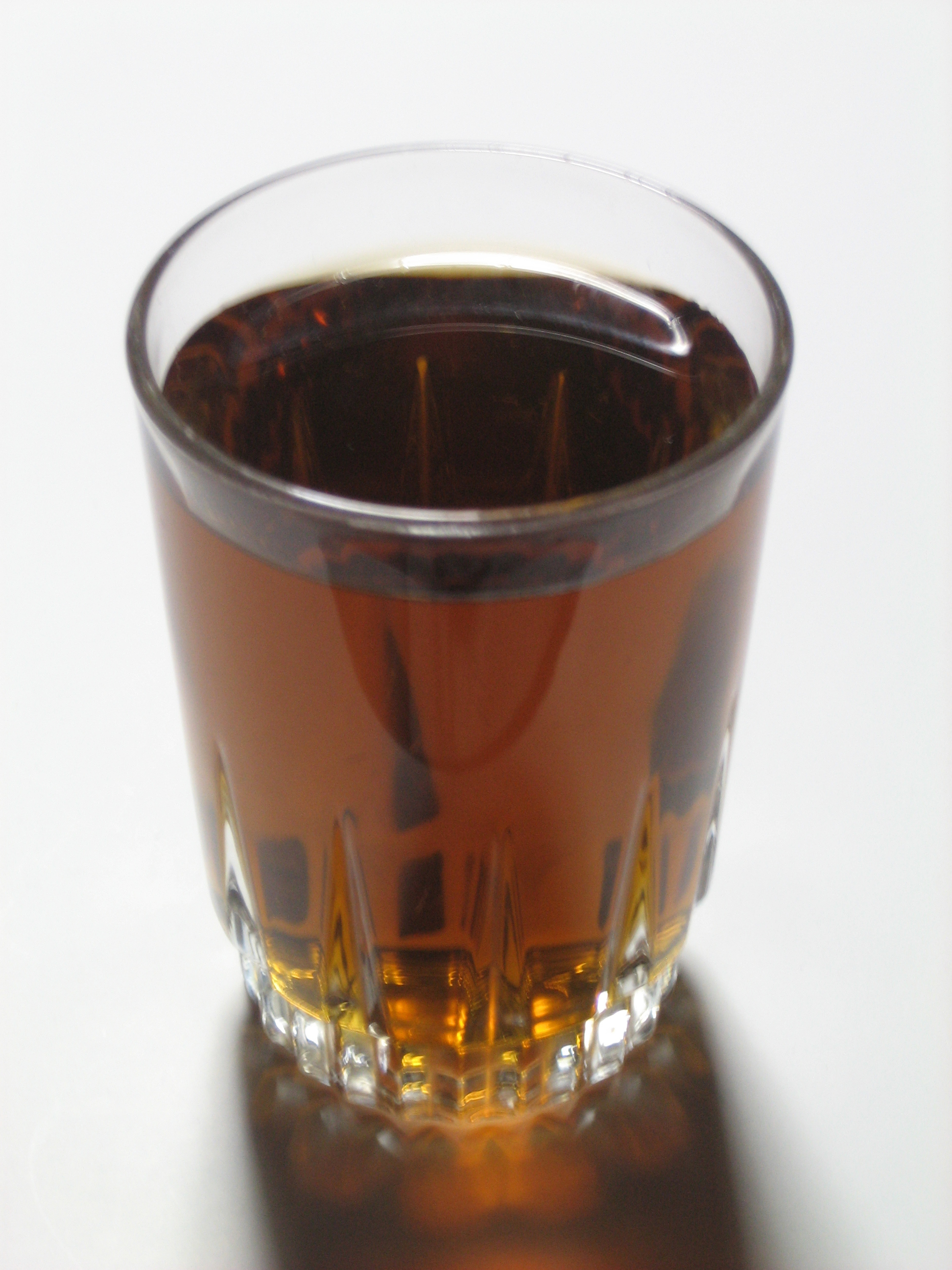 Roasted barley tea.